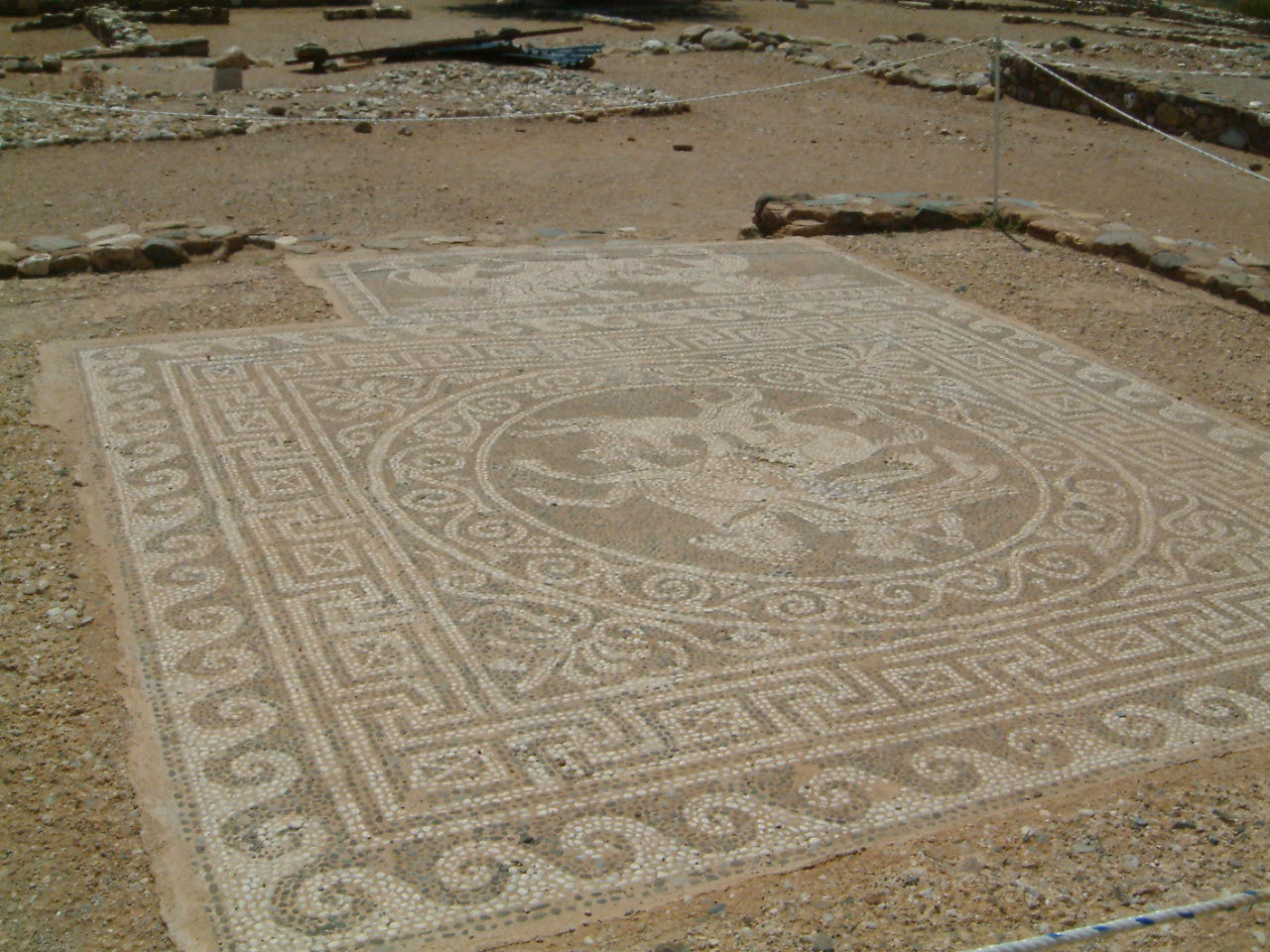 Pebble floor mosaic depicting Bellerophon scene in a house of ancient city of Olynthos, Chalkidiki, Greece (northern hill of ancient town).